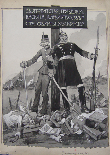 The Pillory (sketch for a poster), the sign says "Sacrilege, Brigandage, Violence, Barbarianism, Atrocities, Deception, Hooliganism."